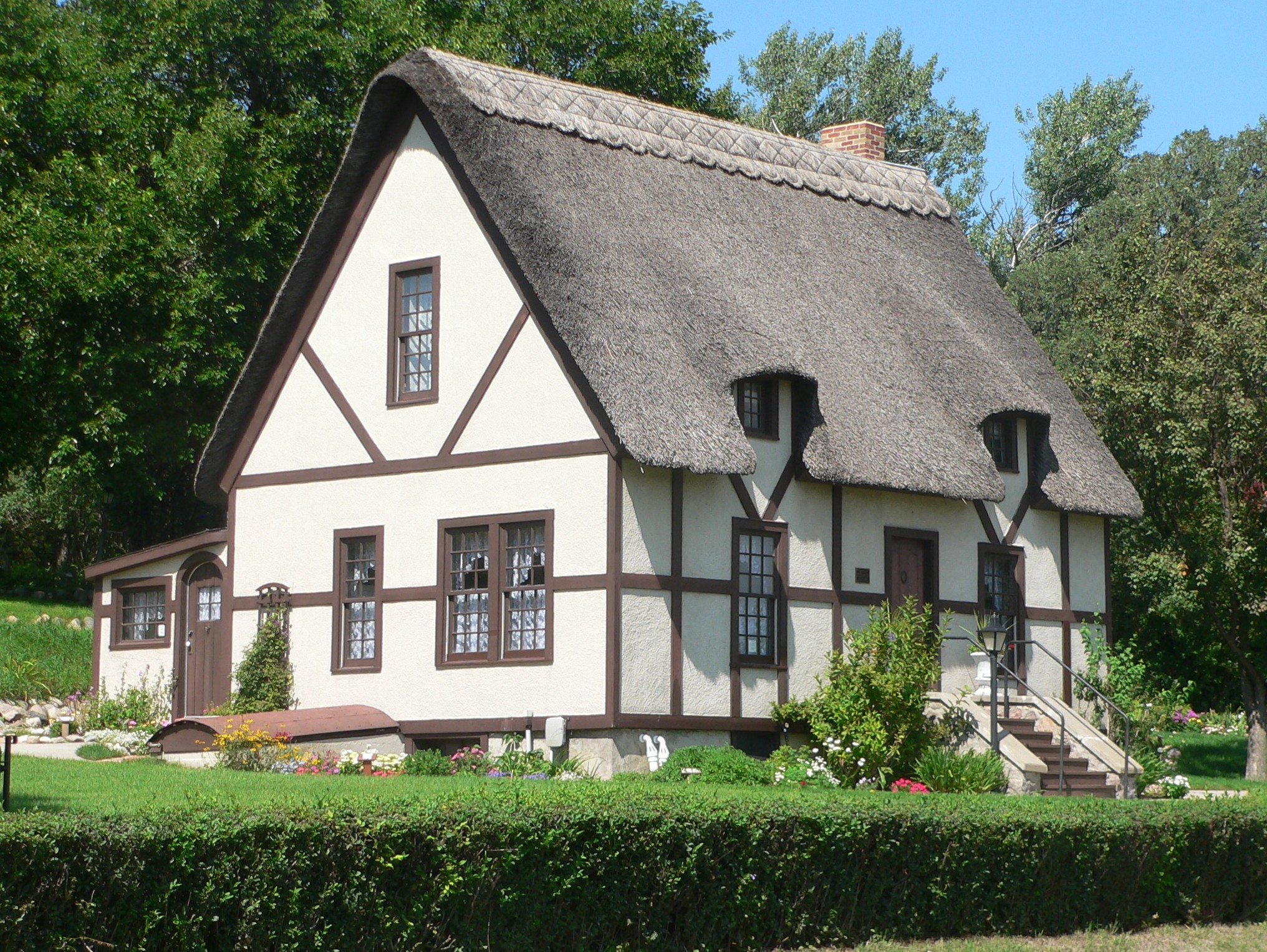 Anne Hathaway Cottage, on Alene Avenue N. in Wessington Springs, South Dakota; seen from the southeast.